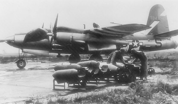 Unidentified 394th Bomb Group B-26 Marauders being loaded with bombs at RAF Holmsley South, England.